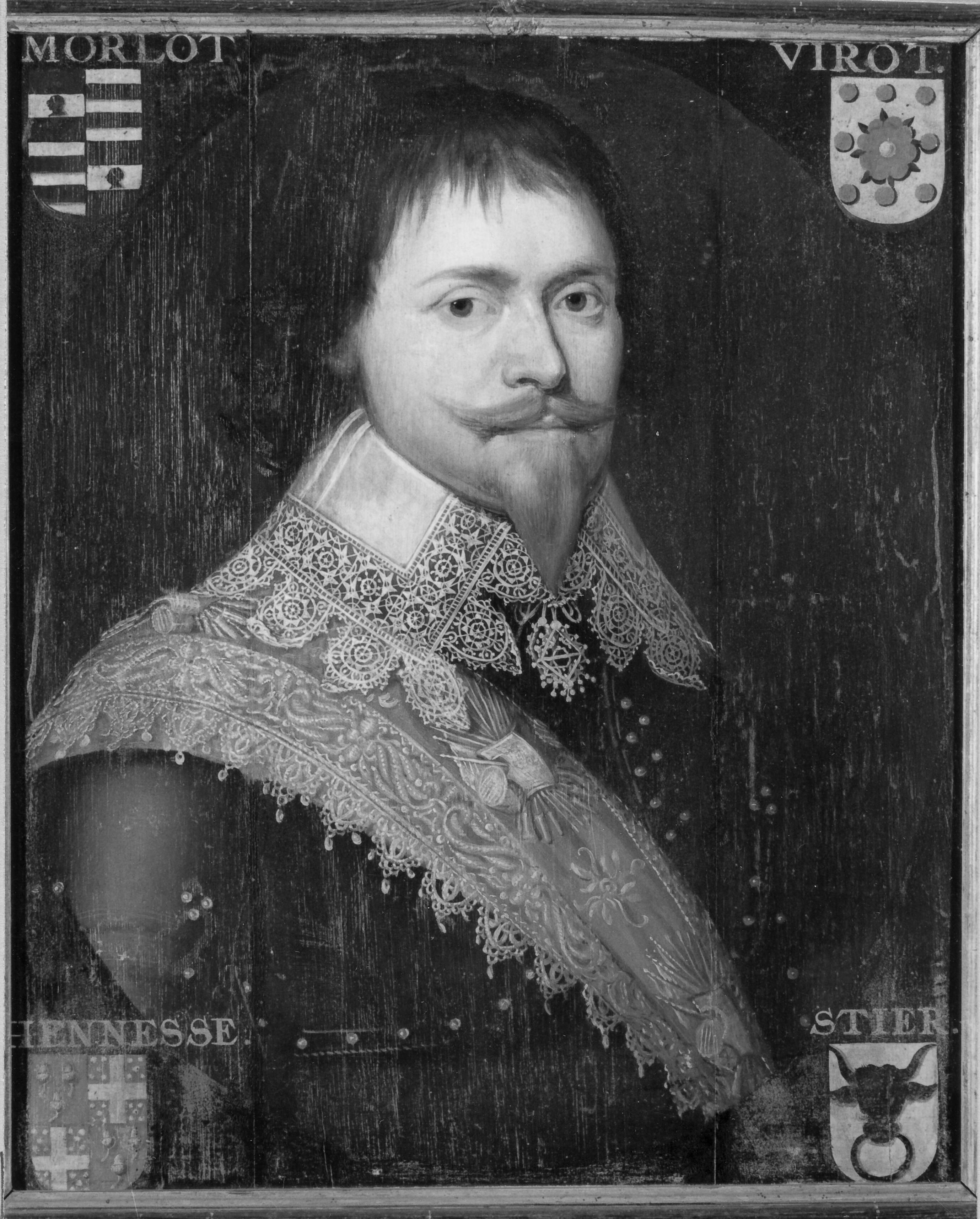 David van Marlot (1593-1680)